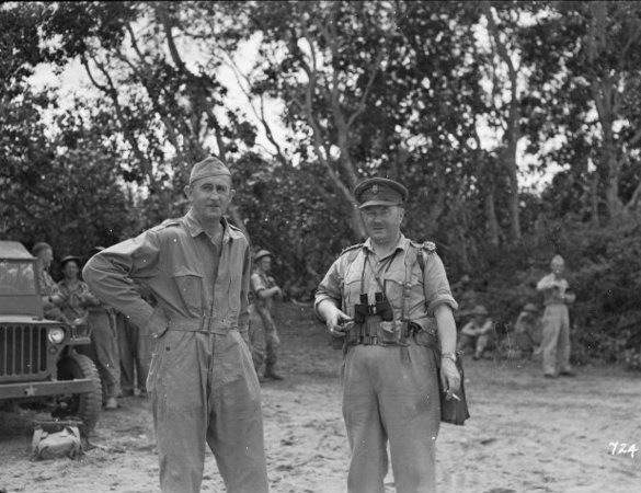 Brigadier-General Neal C Johnson, United States Army, and Brigadier Robert Amos Row, New Zealand Army, at Vella Lavella, Solomon Islands, circa 1943, during World War II. Photograph taken by an unidentified official photographer.